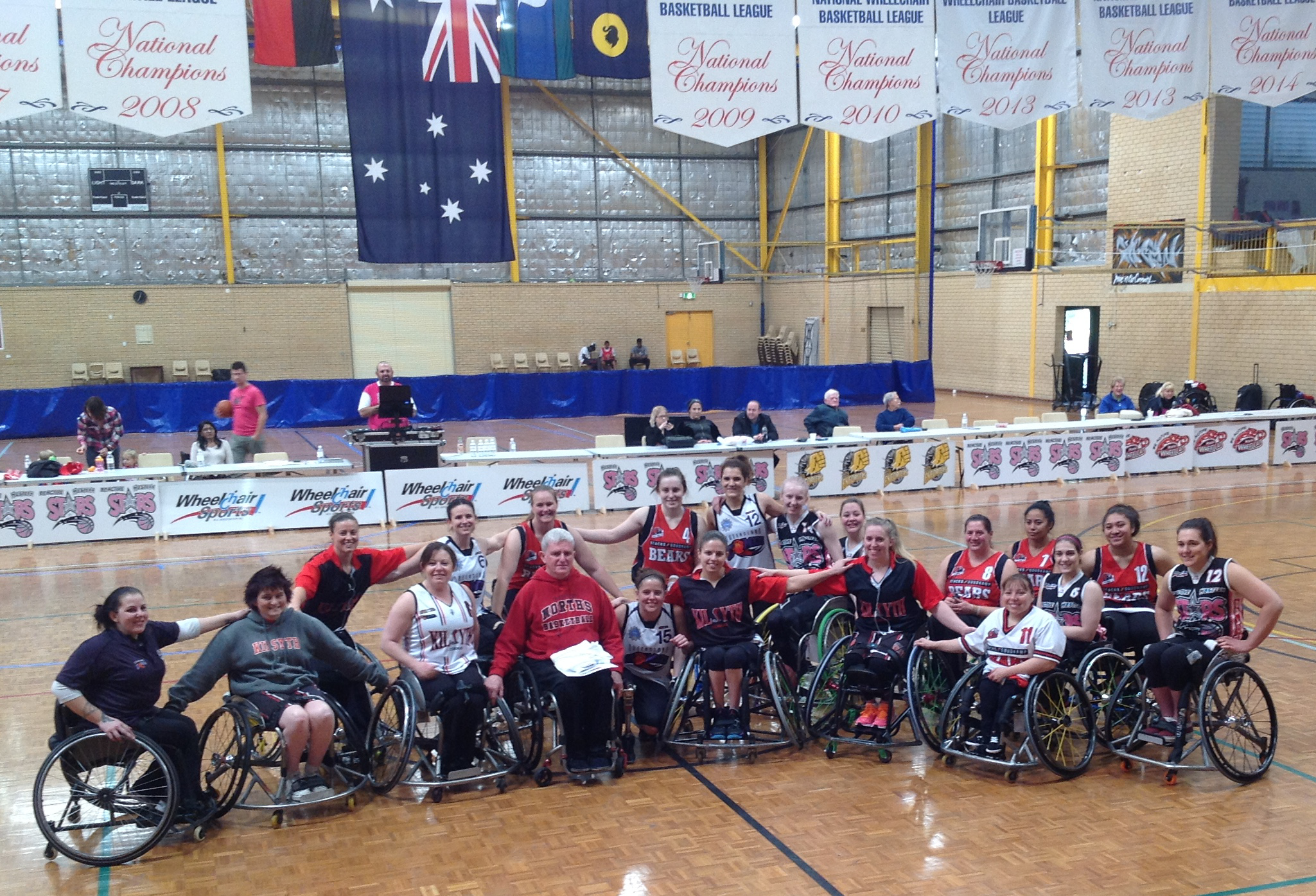 Wheelchair basketball coach Gerry Hewson is surrounded by players he has coached with the Sachs Goudcamp Bears, the Gliders (national team) and the Devils (U25 team). Left to right: Natalie Hodges, Katherine Reed, Leanne Del Toso, Tina McKenzie, Bridie Keen, Tracey Carruthers, Gerry Hewson, Cobi Crispin, Georgia Monro-Cook, Clare Nott, Ella Sabljak, Amber Merritt, Natalie Alexander, Shelley Chaplin, Louie Sauvage, kylie Gauci, Zeena Sauvaga, Sarah Vinci, Mayanne Ofa Latu, Georgia Inglis